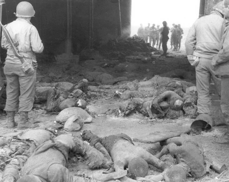 Description: On Friday, April 13, 1945 in preparation of their imminent surrender to U.S. troops; German SS troops, under the orders of a local Nazi official, slaughtered over 1,000 religious, political, and military prisoners of war in an attempt to hide their existence. The prisoners were led into a large masonery shed, in which gasoline soaked straw had been placed on the floor. Using phosphorus grenades the straw was set ablaze. Prisoners who tried to escape the burning barn were shot, the rest died in the fire. The German troops attempted to hide the bodies in a mass grave, but had managed to bury only 700 bodies before the area was taken over by U.S. forces. What the U.S. troops found was horrific. Over 300 bodies were discovered in the barn. One of the U.S. soldiers, Corporal Charles Overstreet was the photographer and radioman for the Headquarters Radio Unit of the 252nd Field Artillery Battalion during World War II and used his camera to record the evil deed. He was also there to hear the tale told by one of the handful of survivors. This man fell down while trying to escape and was covered by the bodies of his fellow prisoners as they were gunned down. He stayed where he was and played dead, even when the Germans returned and asked if anyone needed help. Those survivors that moved or responded were shot. He was still under the pile of corpses when U.S. soldiers arrived. Mr. Overstreet has used these and other photographs he took during the war to educate people about what occurred. For more information about the Gardelegen Massacre go to these websites: and Creator: Charles Overstreet View source image Charles and Katie Overstreet have generously allowed the Flora Public Library to borrow their collection for digitization. Part of Charles Overstreet Collection, Flora Public Library Brought to you by IMLS Digital Collections and Content Unrestricted access; use with attribution.